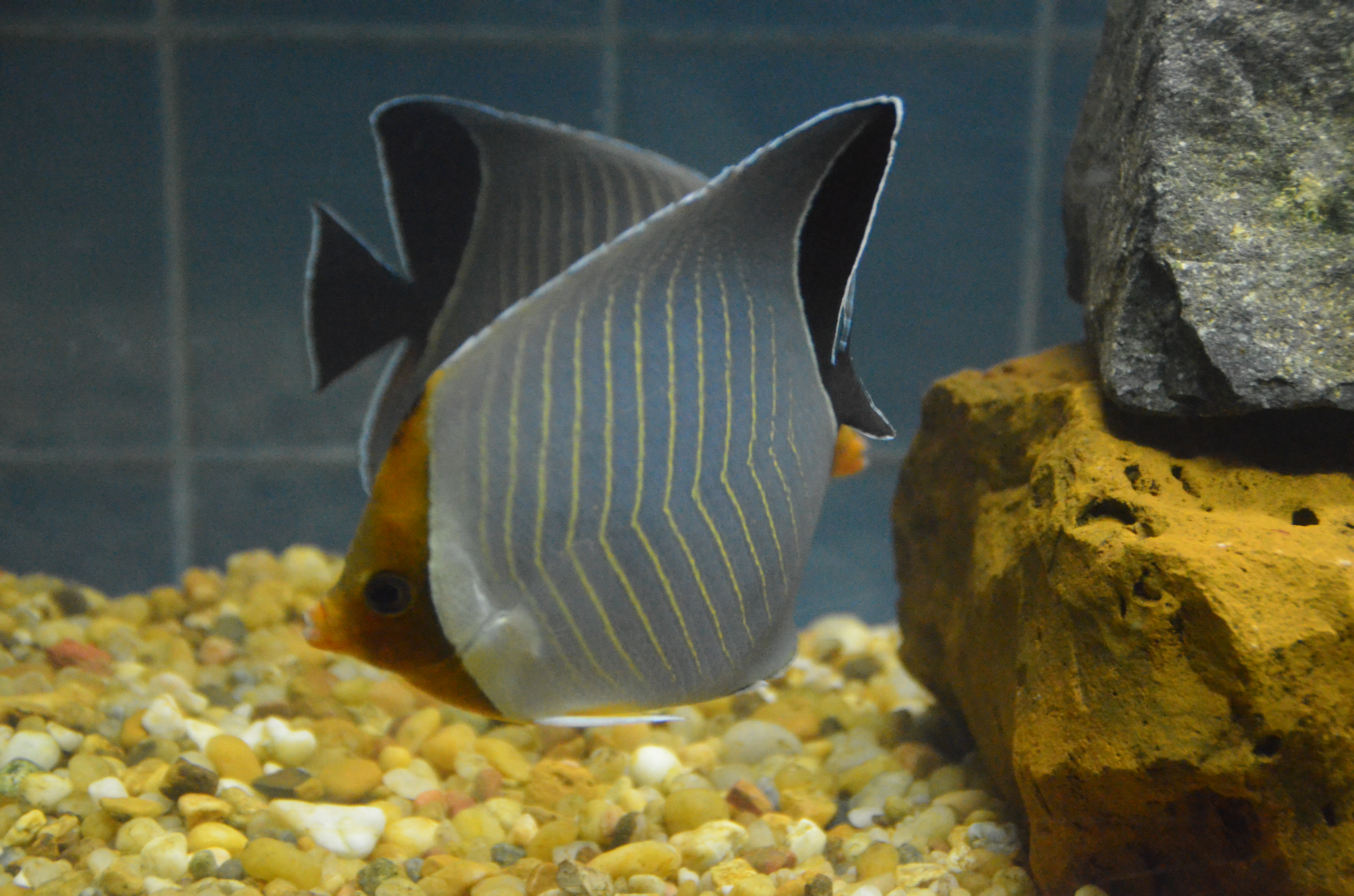 Hooded butterflyfish - Orangehead butterflyfish